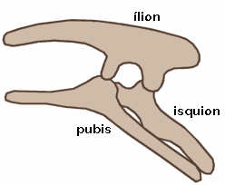 Ornithischia pelvis skeleton in Spanish.